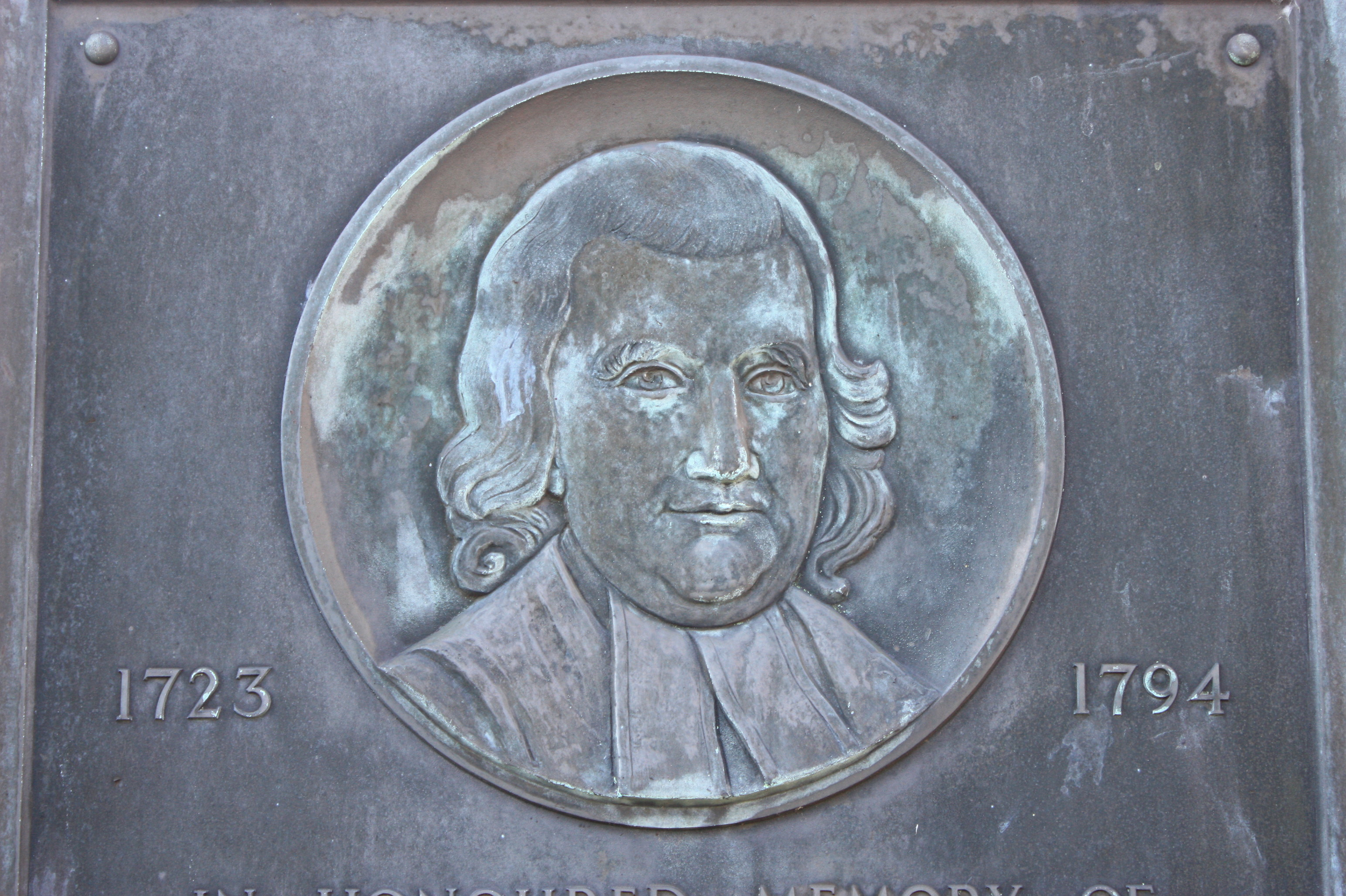 Plaque to Rev John Witherspoon, Gifford, East Lothian